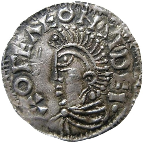 King Olaf Scotking of Sweden (Olov Skötkonung), as depicted on a coin of his